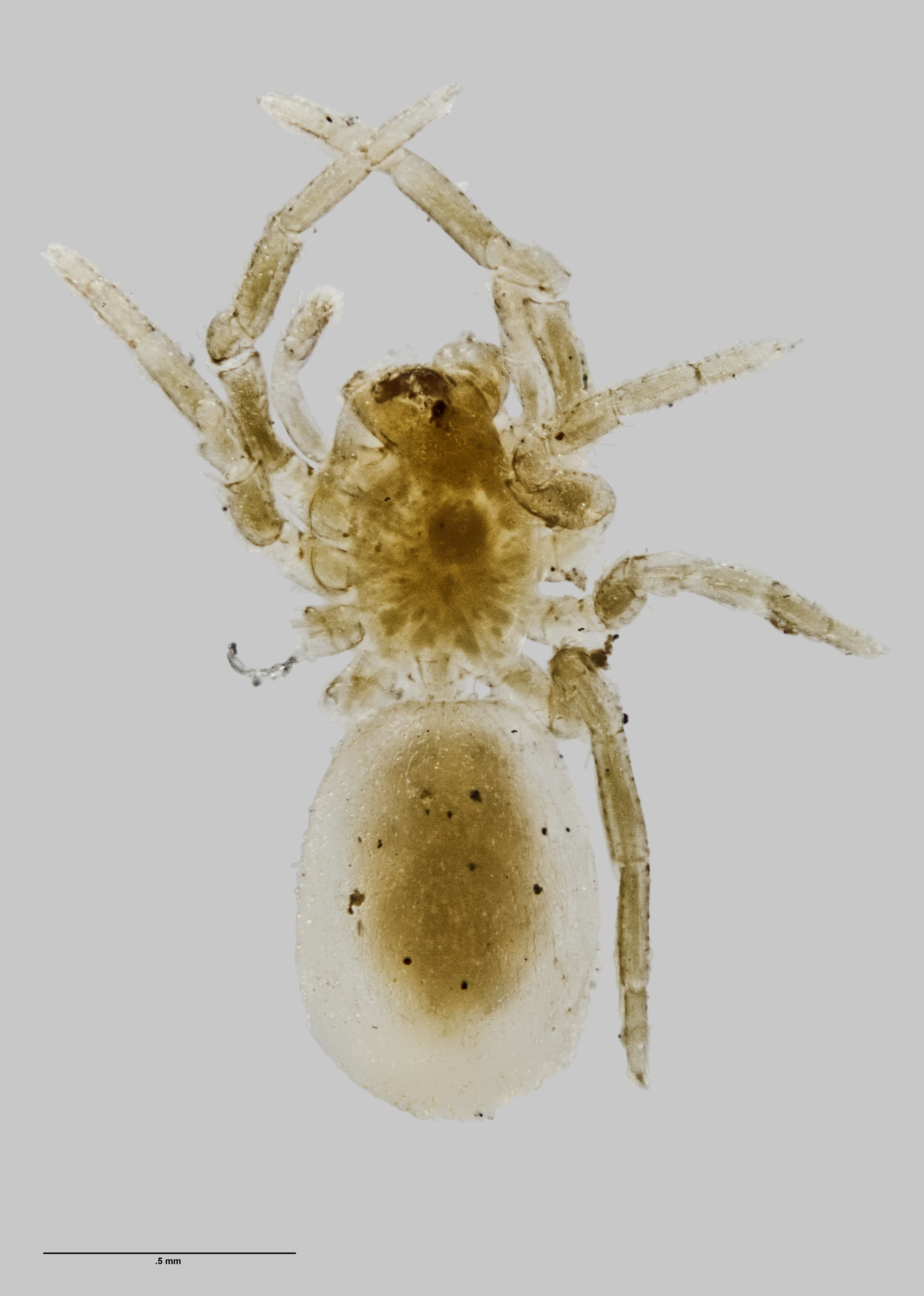 Image of holotype or allotype of Huka alba AMNZ5057 held at the Auckland War Memorial Museum.